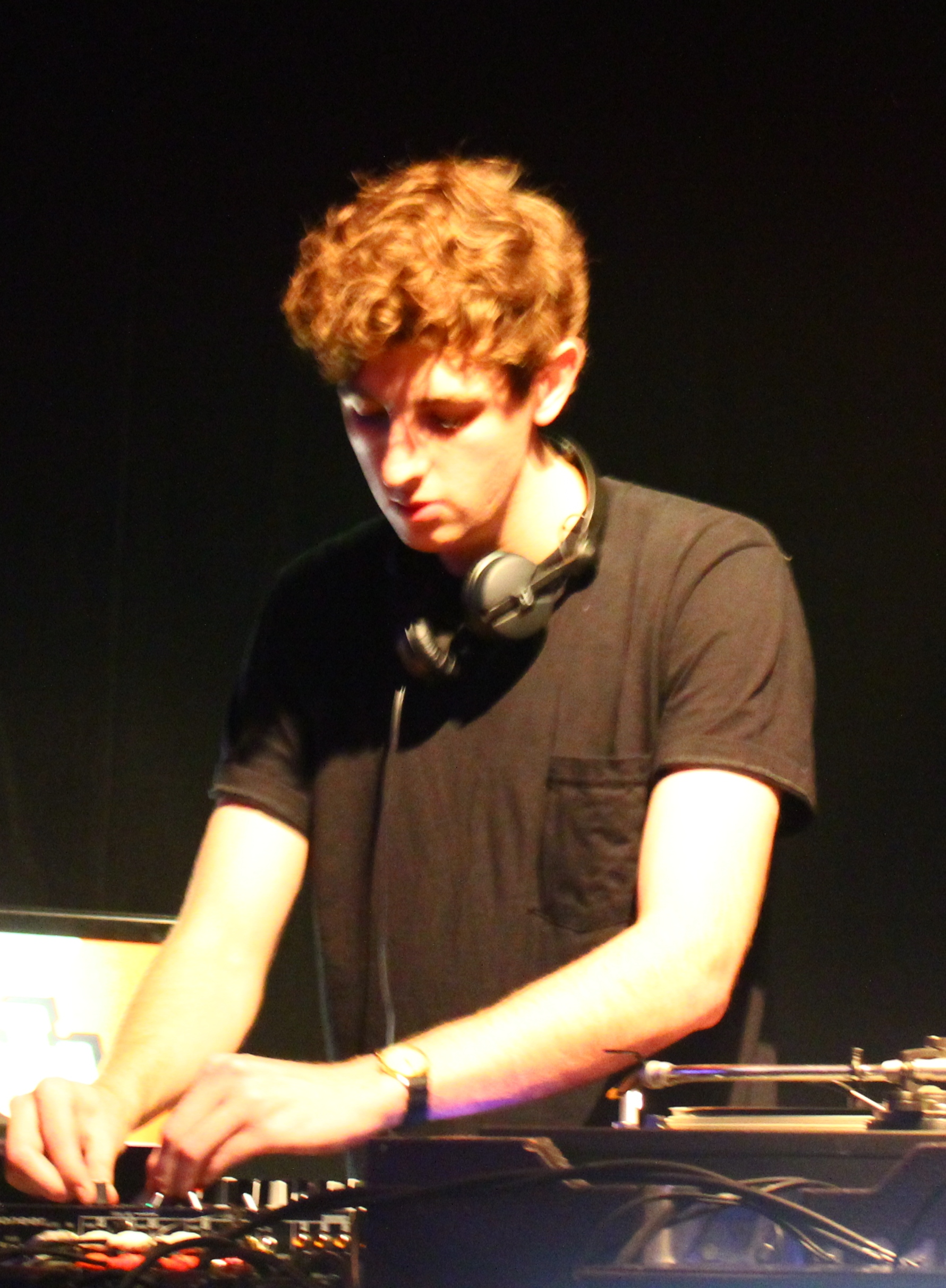 Jamie XX and visual artists Quayola performed a 3 hour set at the Classic Car Club on Old Street for a Rizlab project named 'Structures'.